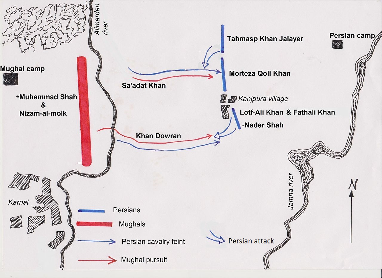 dfdbhhhhggfffff